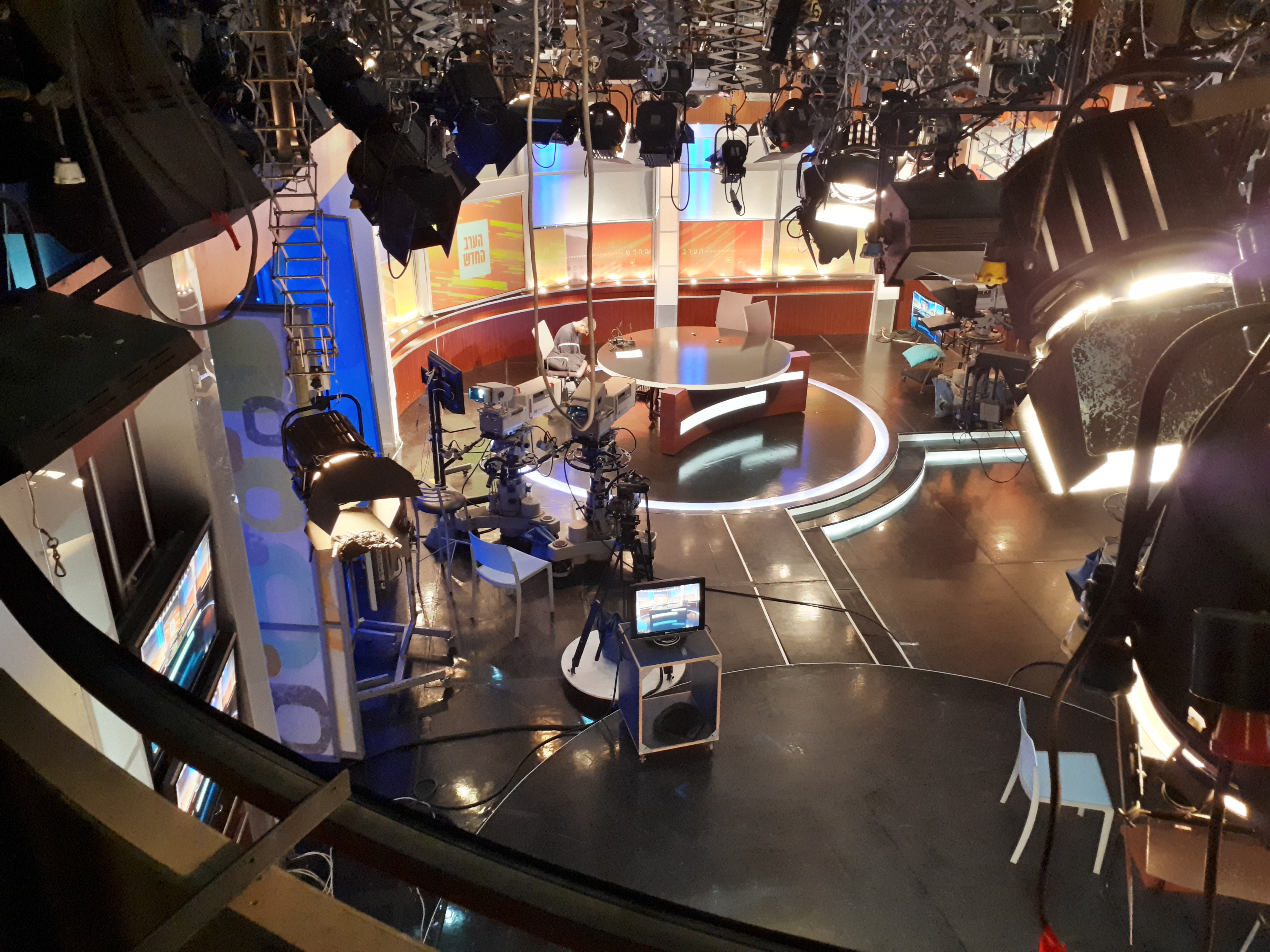 Television Studio of IETV's "Erev Hadash" show. Tel Aviv. April 2018